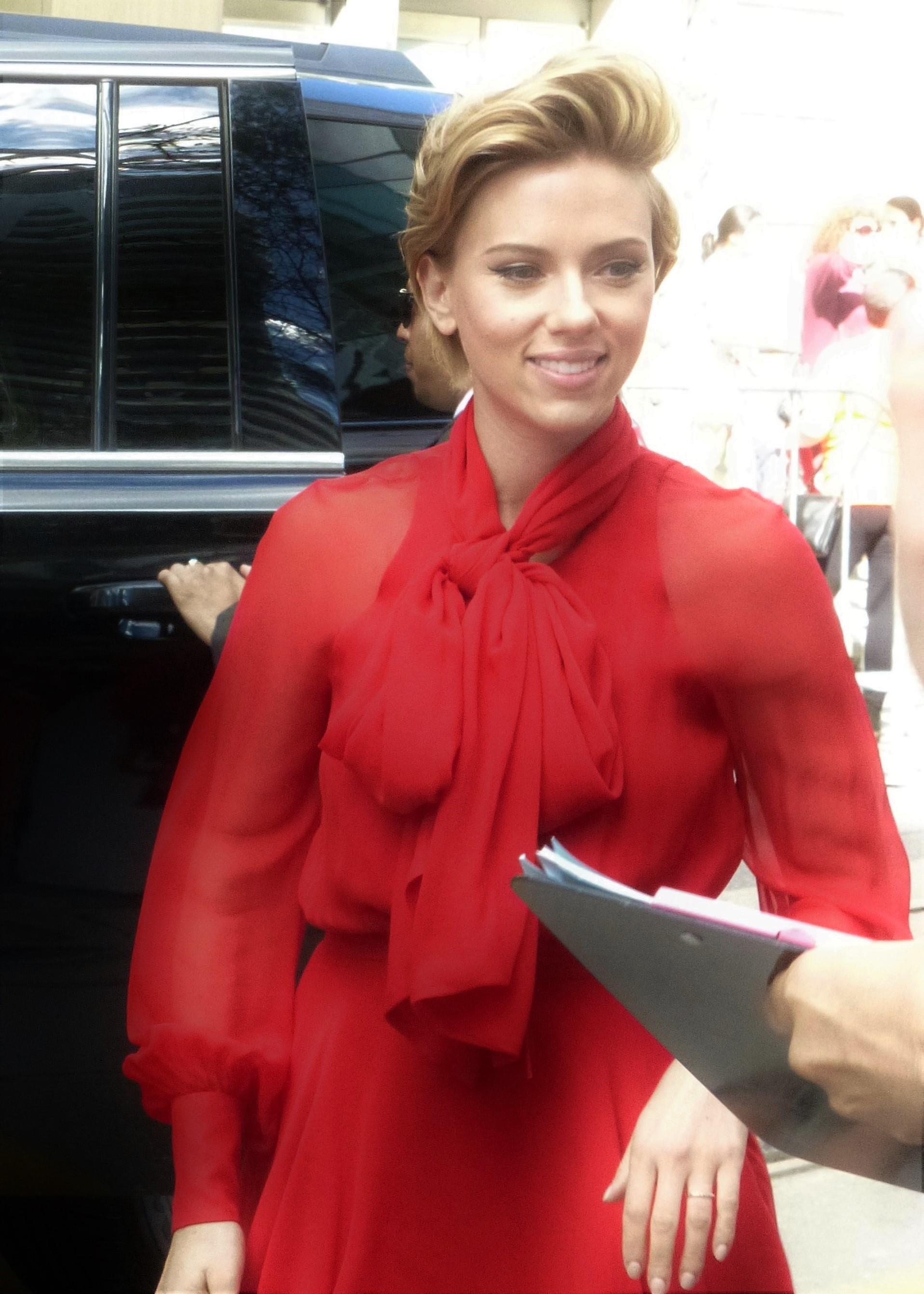 Scarlett Johansson at the premiere of Sing, 2016 Toronto Film Festival